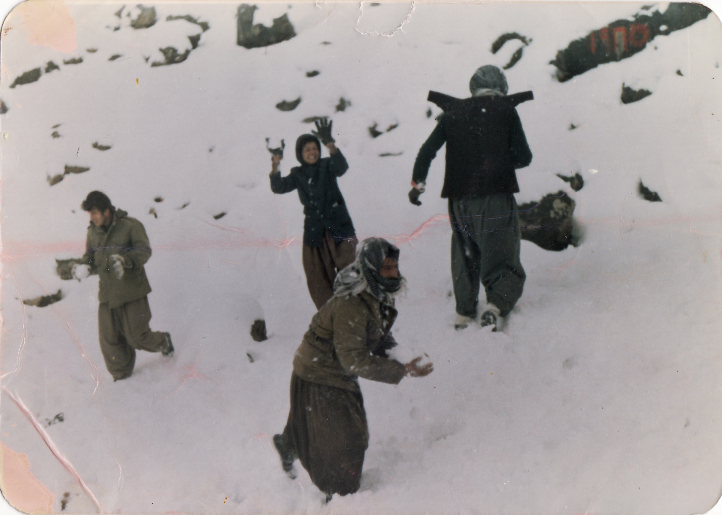 Partisans, northern Iraq, 1980s